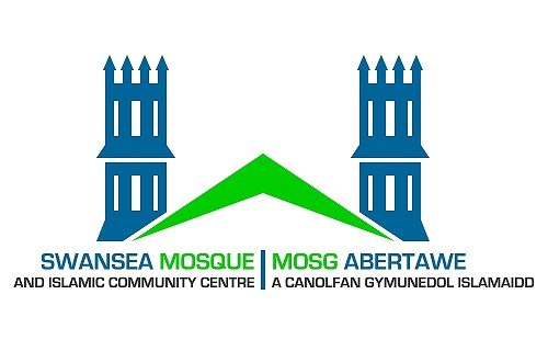 Swansea Mosque - Mosq Abertawe logo